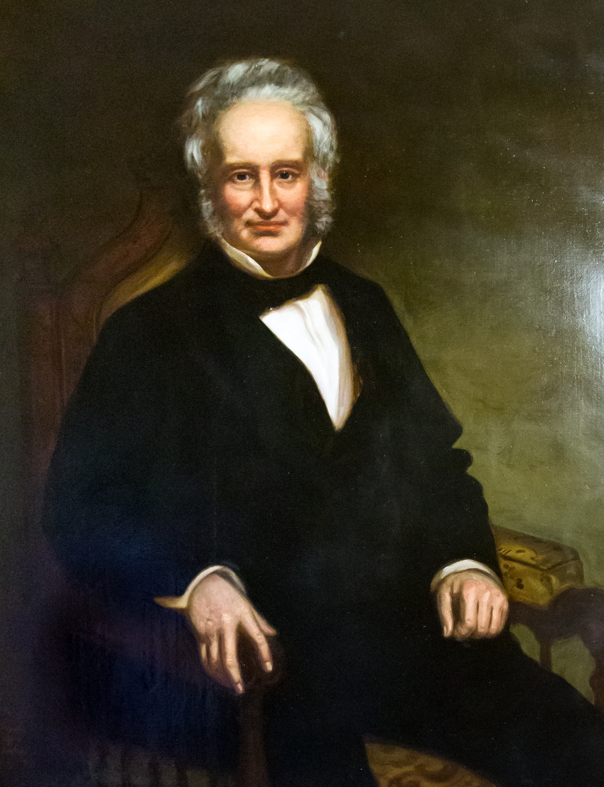 RI Governor John Brown Francis. Painting by John Nelson Arnold, after George P.A. Healey. Rhode Island State House portrait collection.